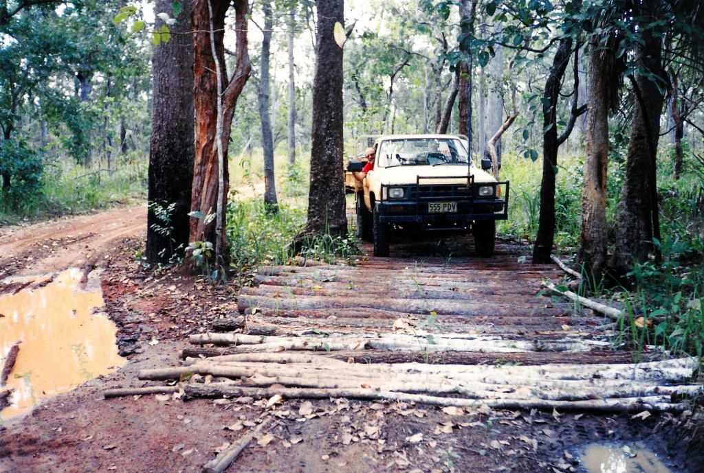 I took this photo on a trip around Cape York Peninsula in Queensland, Australia, in 1990.